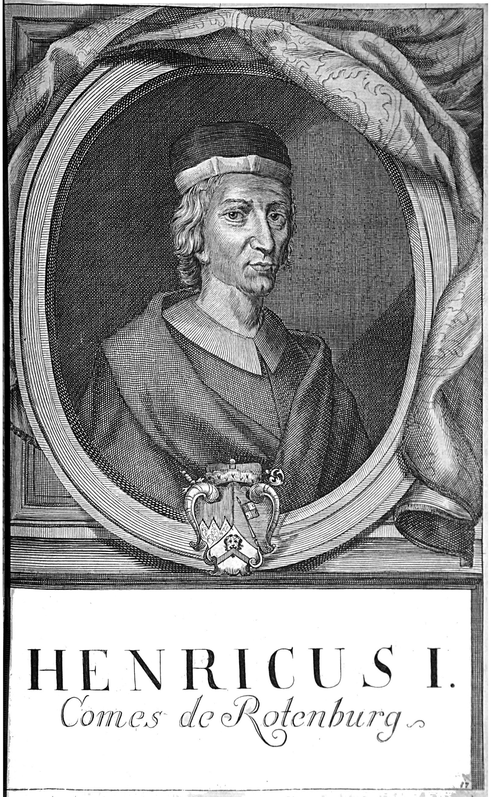 Heinrich I. († 14. November 1018 in Würzburg) 996 - 1018 Bishop of Würzburg.